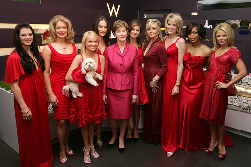 Mrs. Laura Bush joins celebrities participating in the Red Dress Collection Celebrity Fashion Show Friday, Feb. 2, 2007, during Fashion Week in New York to raise awareness of heart disease and the importance of heart health for women. Standing with Mrs. Bush are, from left: auto racer Danica Patrick, TV host Mary Hart, actress and singer Kristin Chenoweth, actress Camilla Belle, anchor and TV host Natalie Morales, actress Jane Krakowski, newscaster Paula Zahn, actress Angela Bassett and TV host Kelly Ripa.